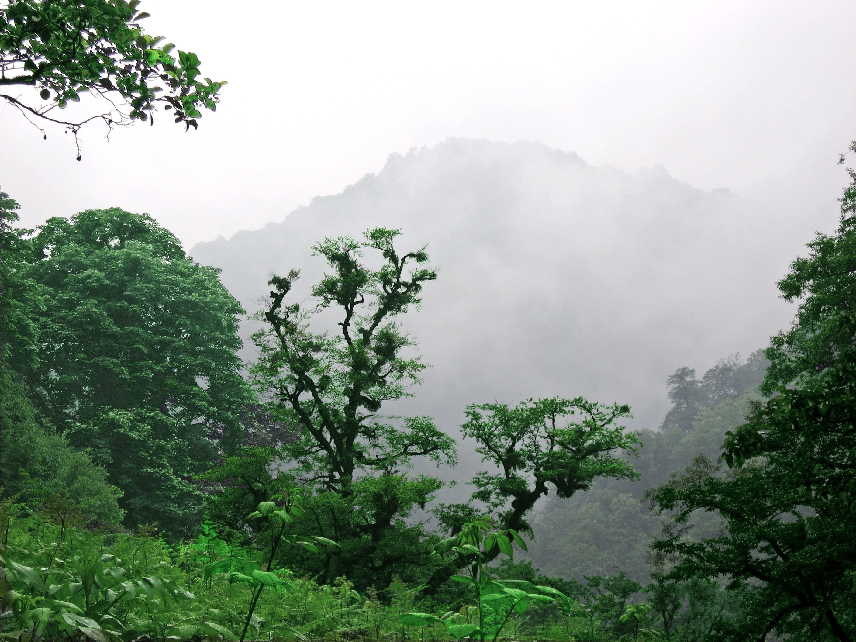 Rud Khan Fort in The Northern Jungles of Iran, temperate rainforests in Gilan Provence, Iran